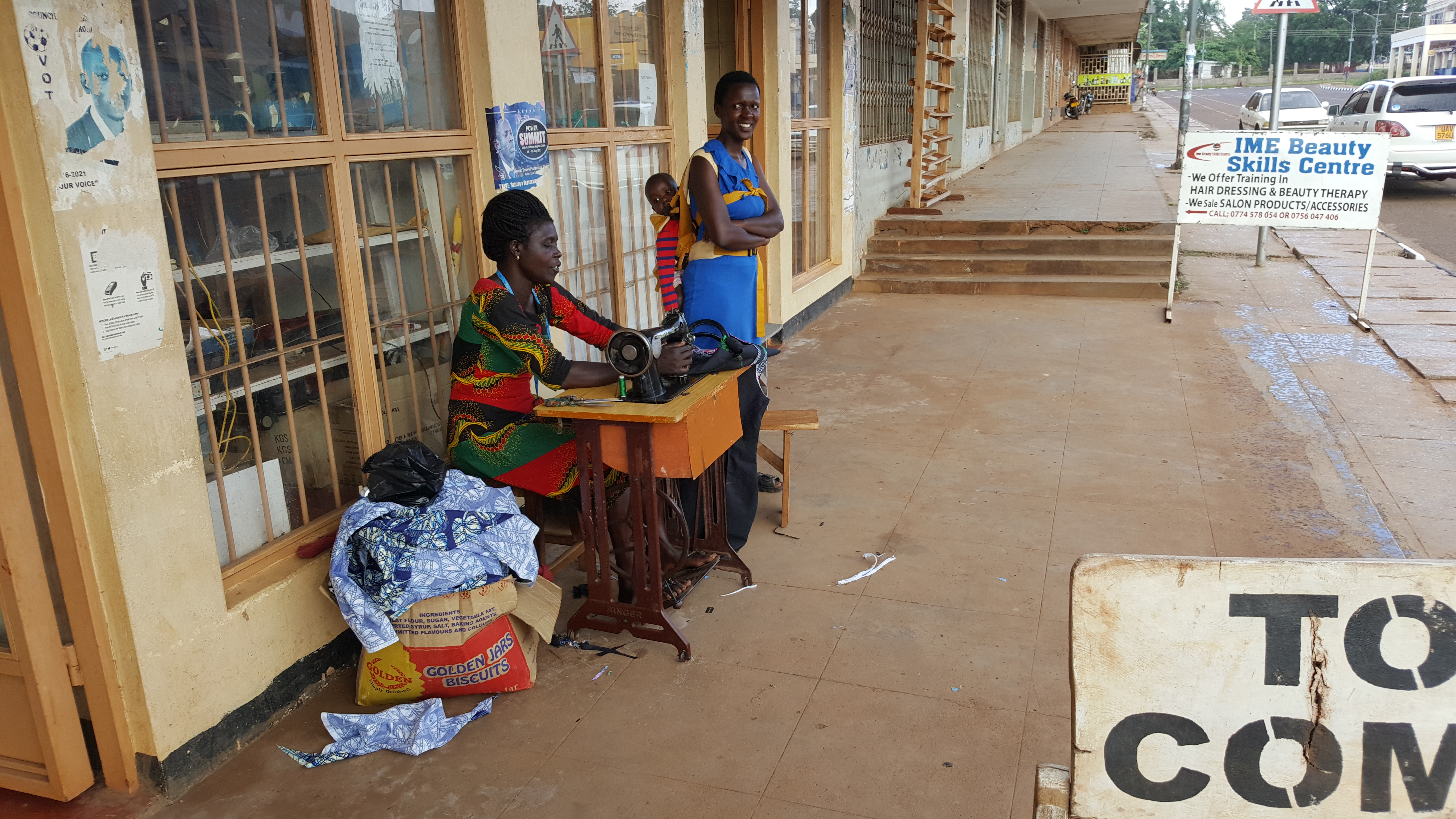 Seamstress in Tororo, East Uganda. This is an image of "African people at work" from Uganda